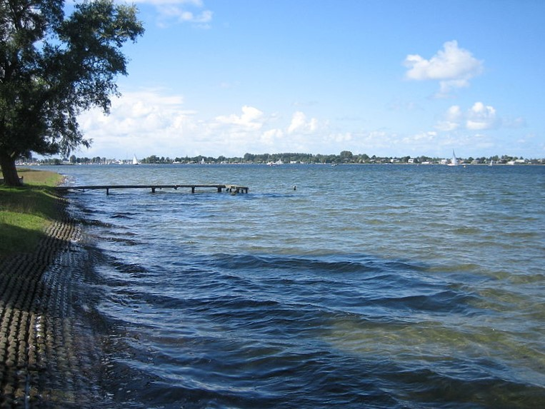 Veerse Meer, seen from Wolphaartsdijk, Goes, Zeeland, The Netherlands